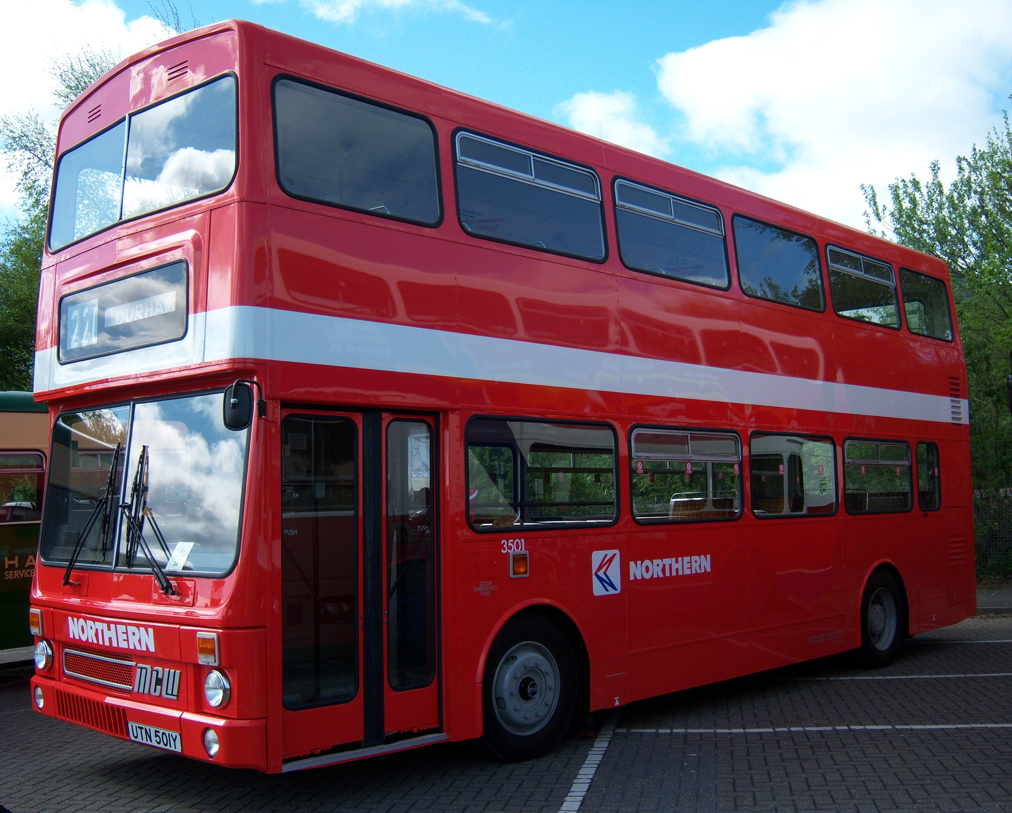 Preserved National Bus Company Northern 3501 (UTN 501Y), a MCW Metrobus MkII, seen on display at the 2009 Metrocentre bus rally.